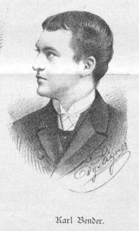 Portrait of Karl Bender (1864-1910), German actor.